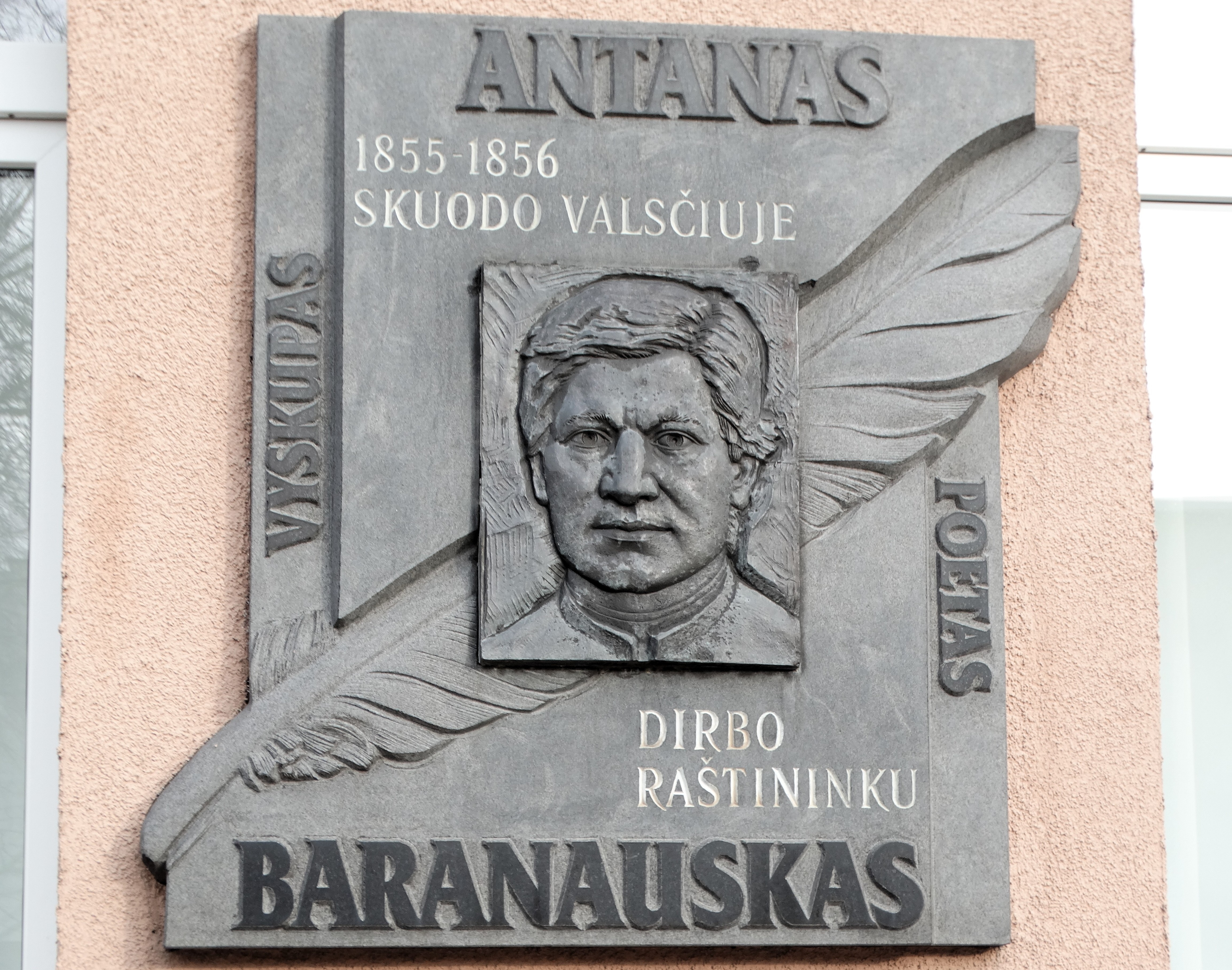 Memorial plaque to Antanas Baranauskas, Skuodas, Lithuania